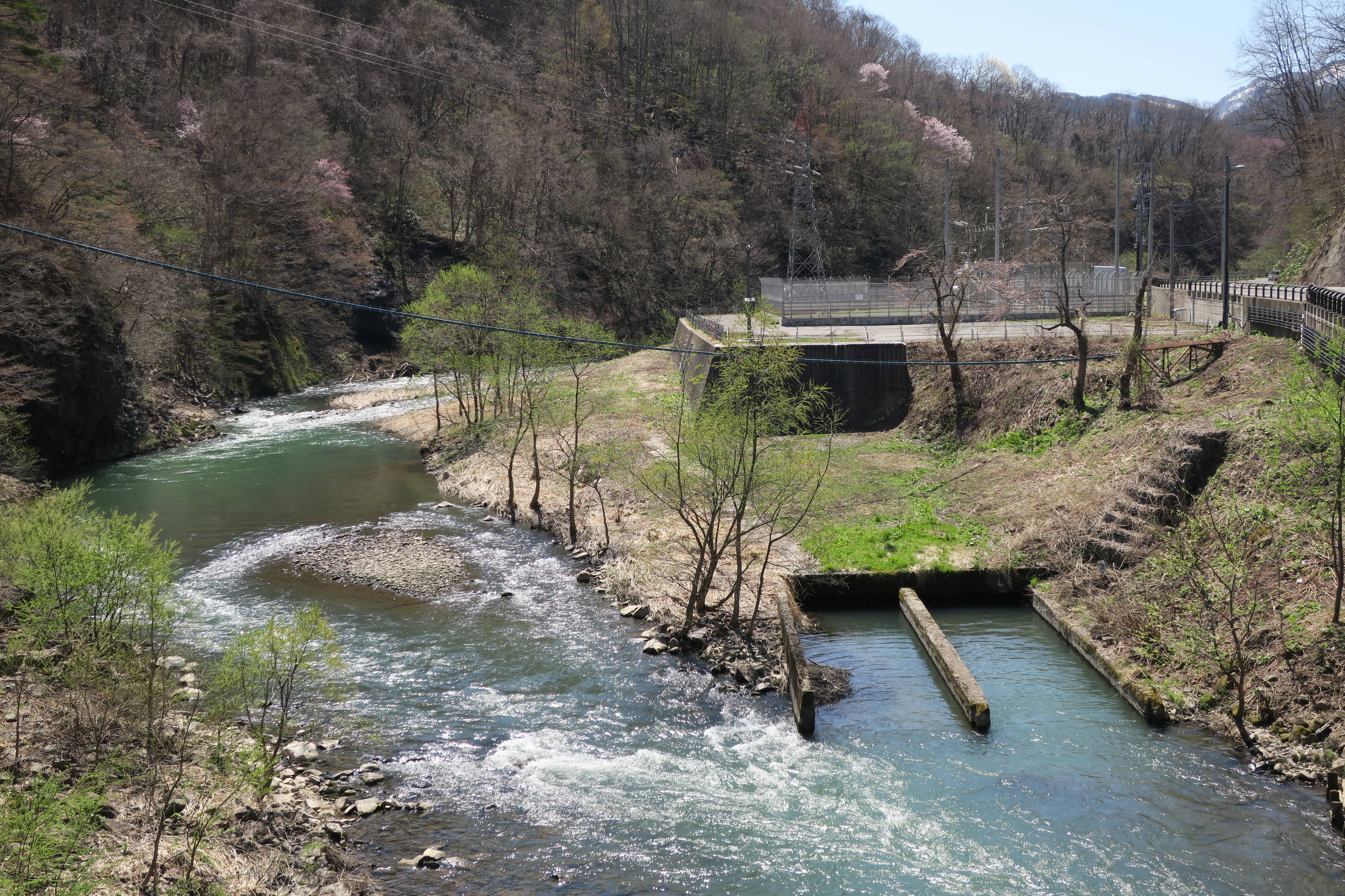 Iwakigawa No. 1 Power Station (Nishimeya, Aomori).